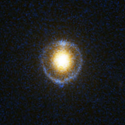 Einstein Ring Gravitational Lens (SDSS J162746.44-005357.5); diameter 2.08 ± 0.08""